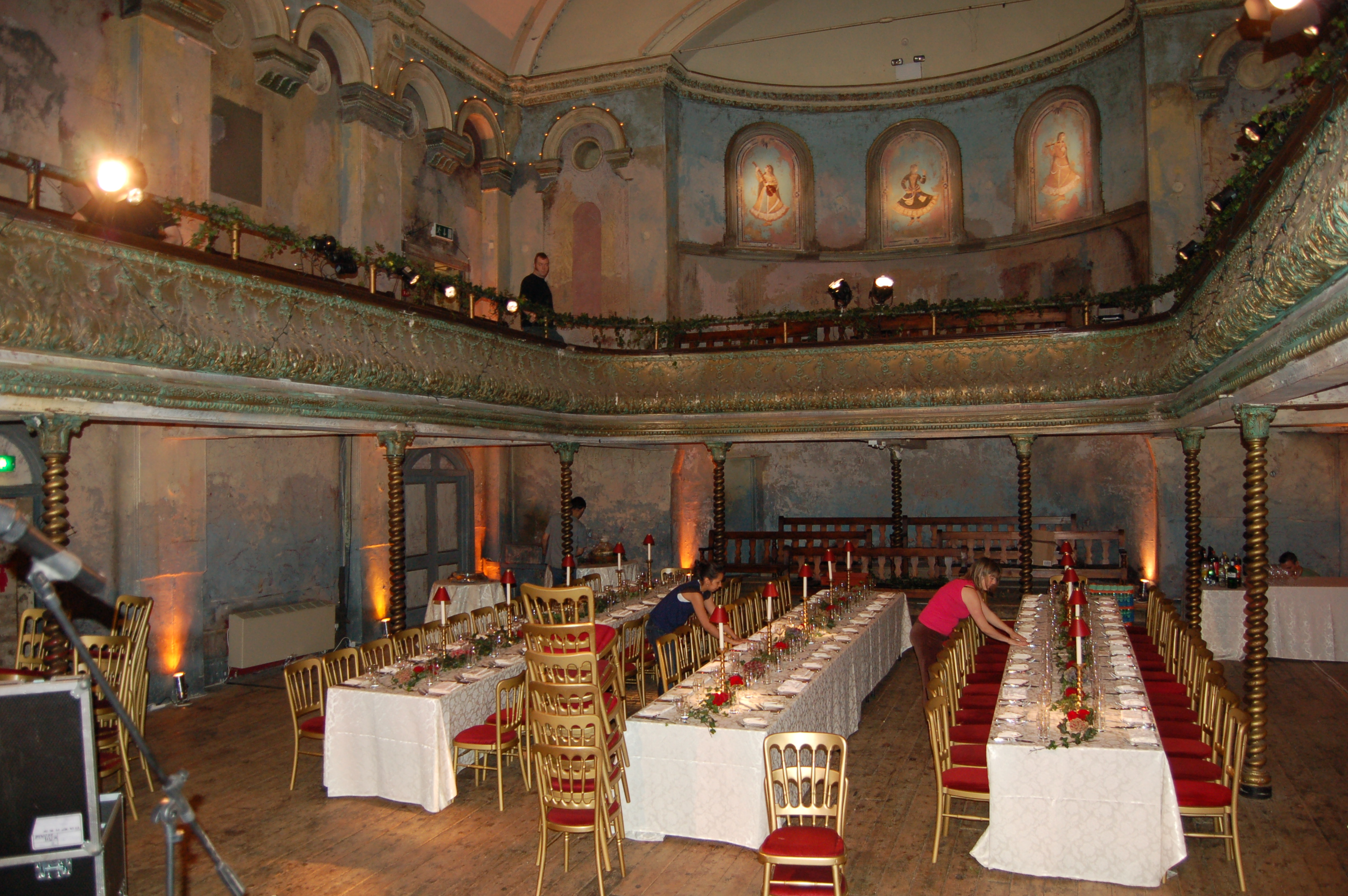 Use freely, pls attribute - K. Thompson Interior view of Wilton's Music Hall (London Borough of Tower Hamlets), with tables being laid for a wedding. A similar layout would have been used when Wilton's was used as a supper club.